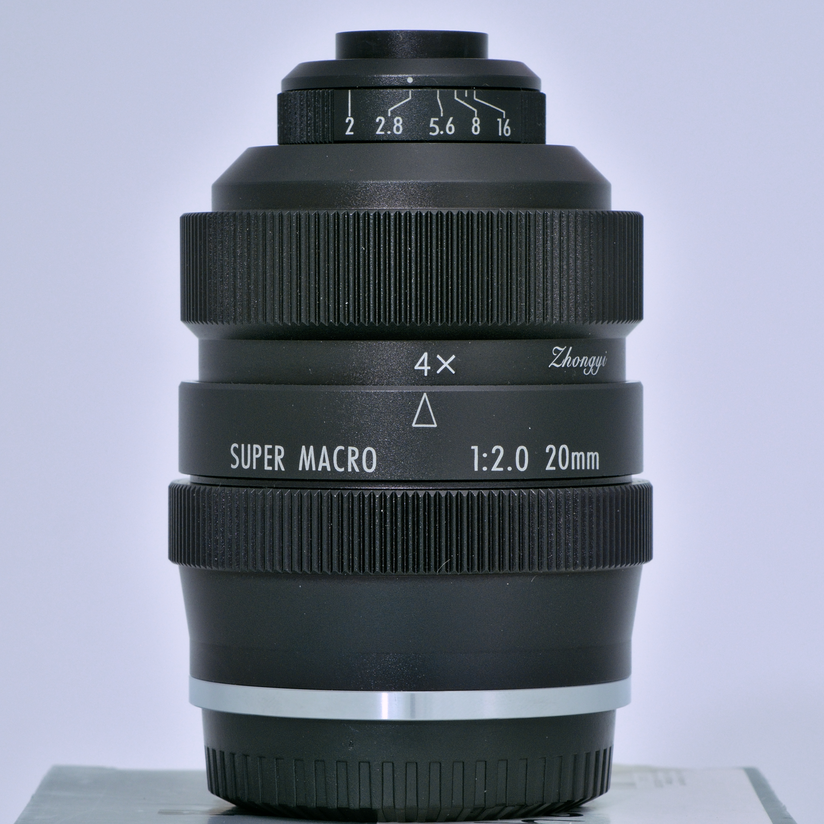 Ultra macro lens